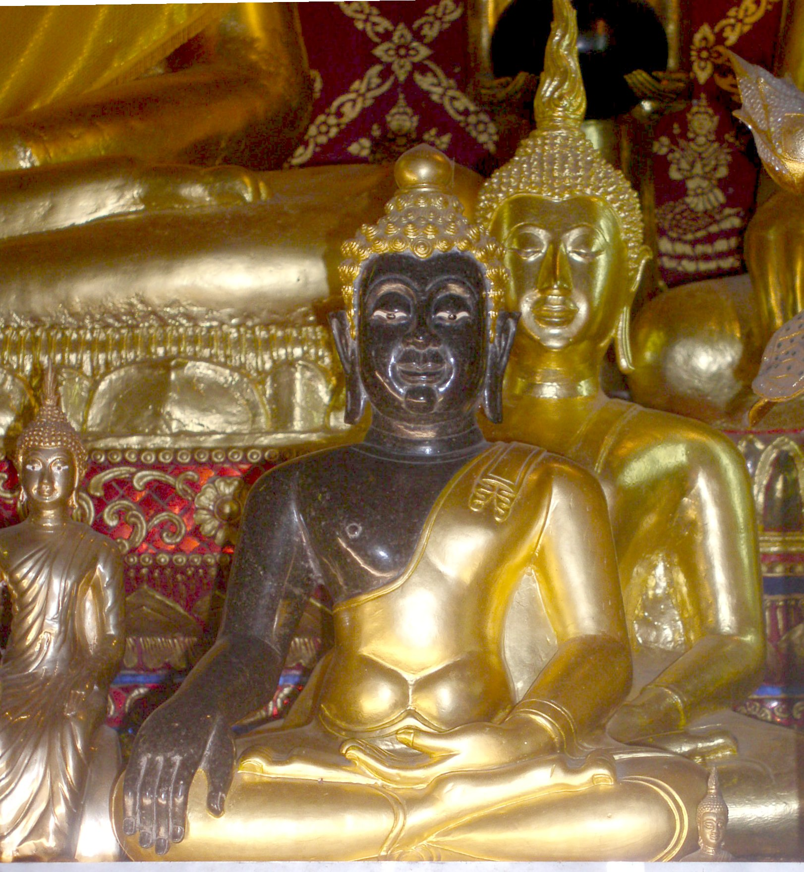 One replica of the PraSingh image in the Ubosoth at Wat Pra Singh Chiang Rai